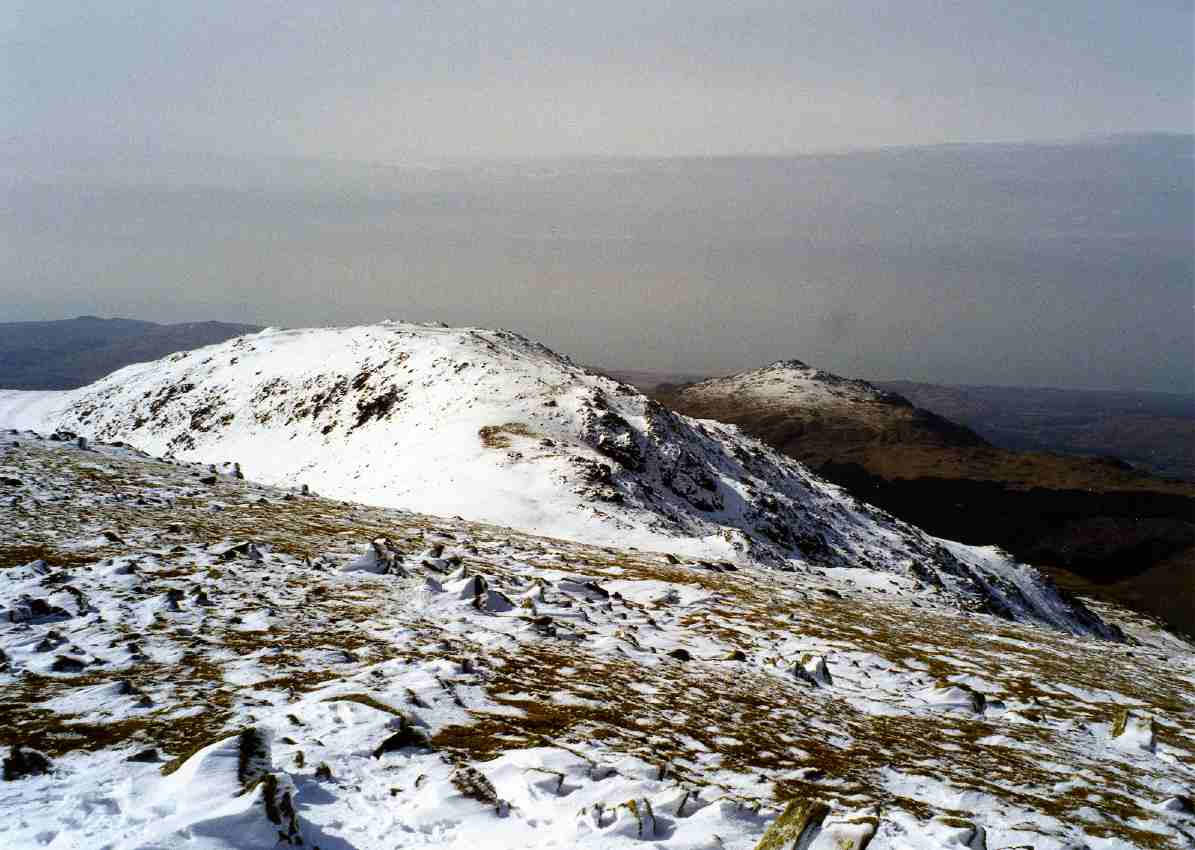 Grey Friar from Great Carrs, one km to the east, Harter Fell is in the background. Personal photograph taken by Mick Knapton